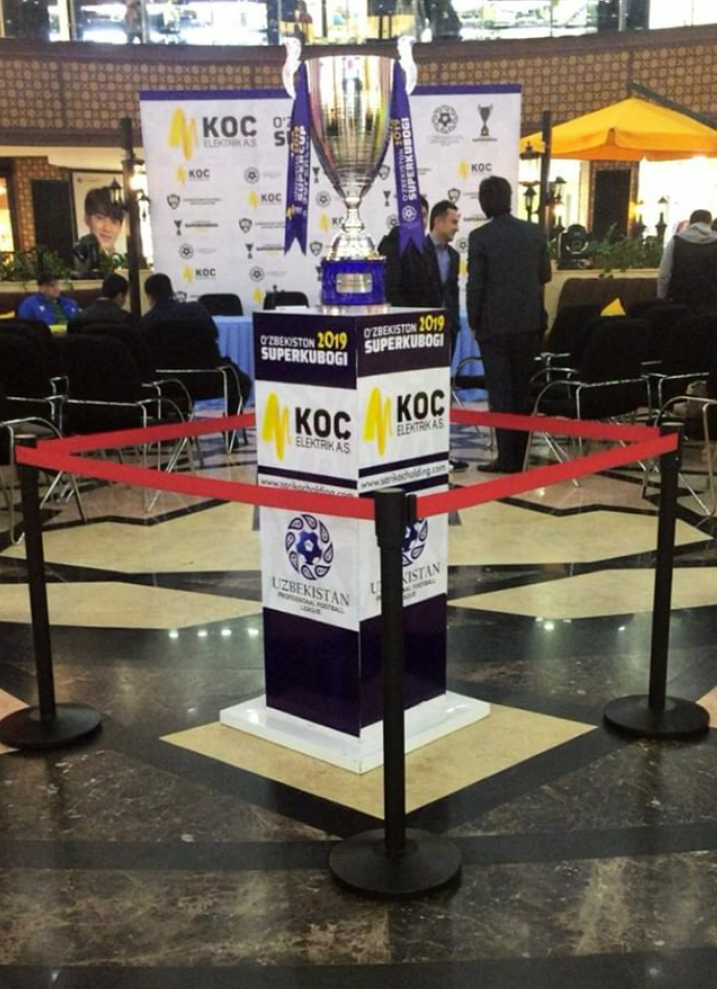 2019 Uzbekistan Super Cup